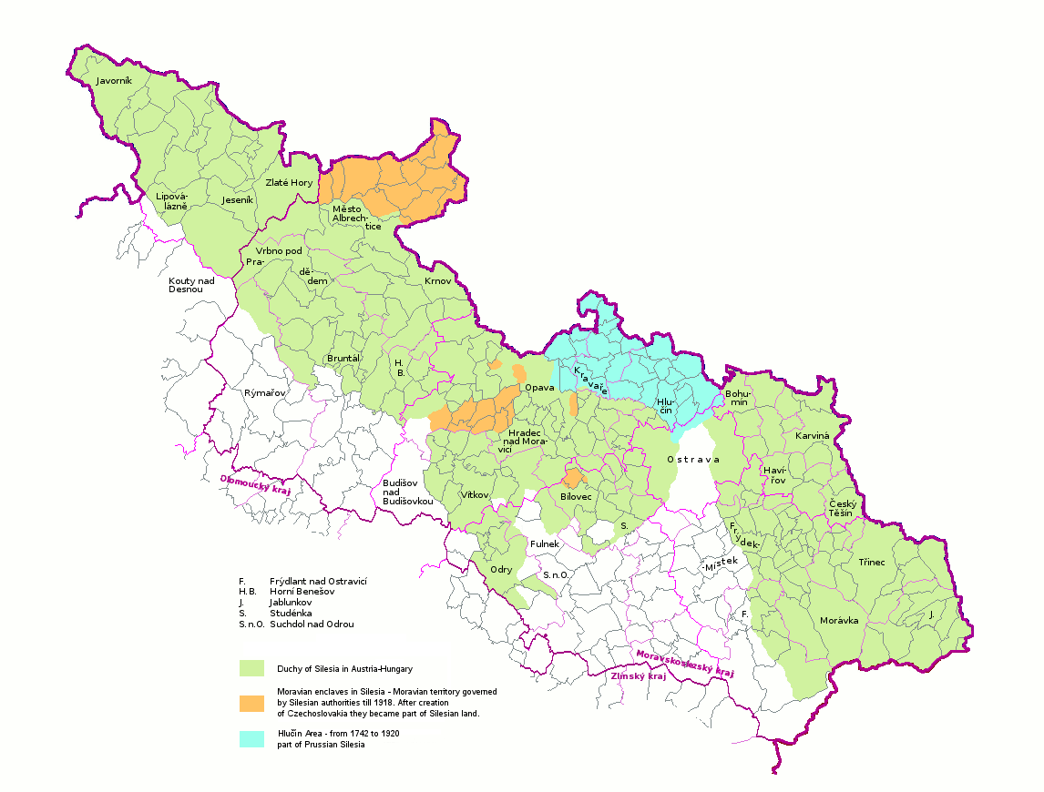 Translations of the kraj as named on the map: Moravskoslezský kraj = Moravian-Silesian Region Olomoucký kraj = Olomouc Region Zlínský kraj = Zlín Region